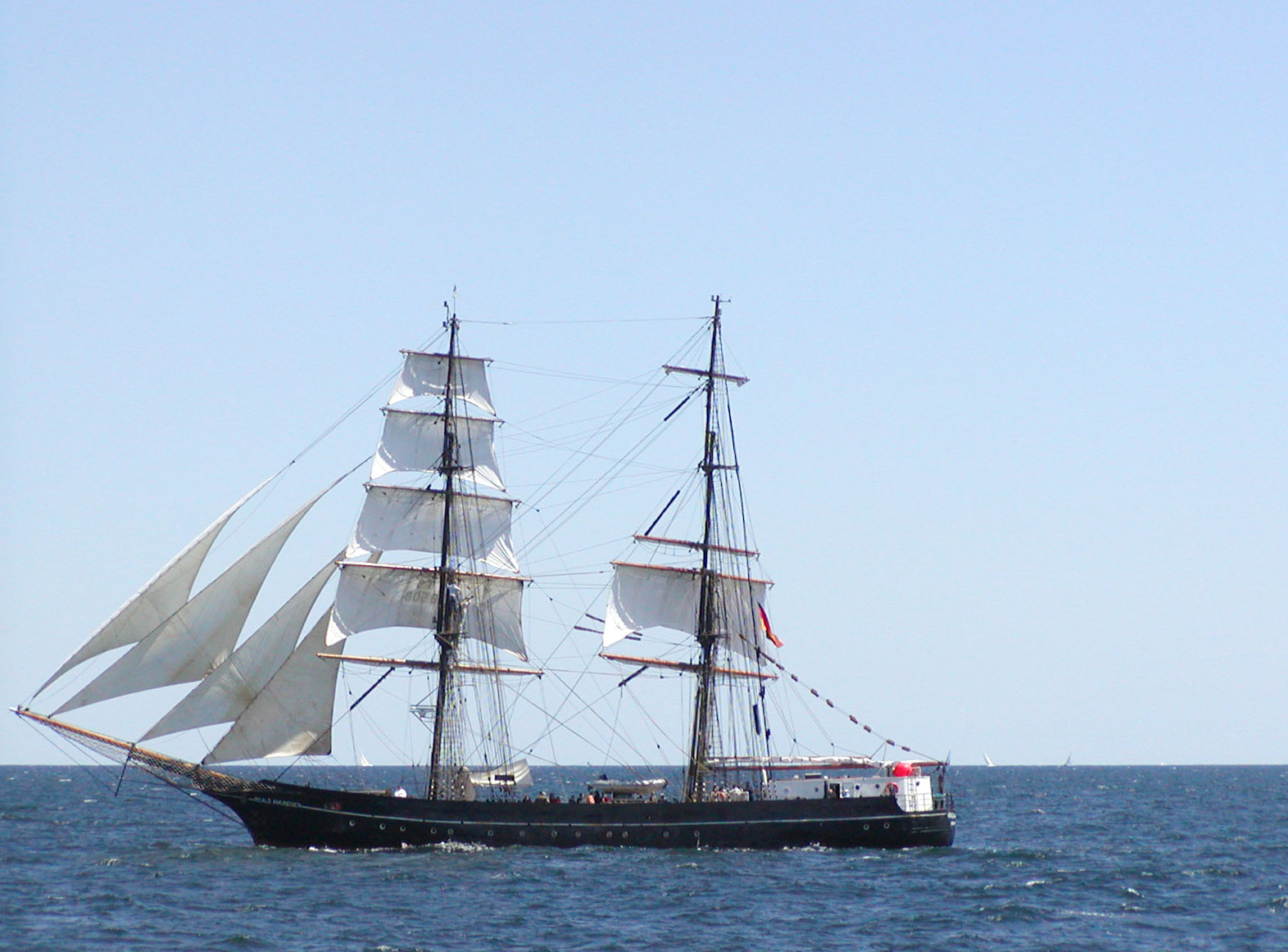 Brigg Roald Amundsen at Kiel Week 2008